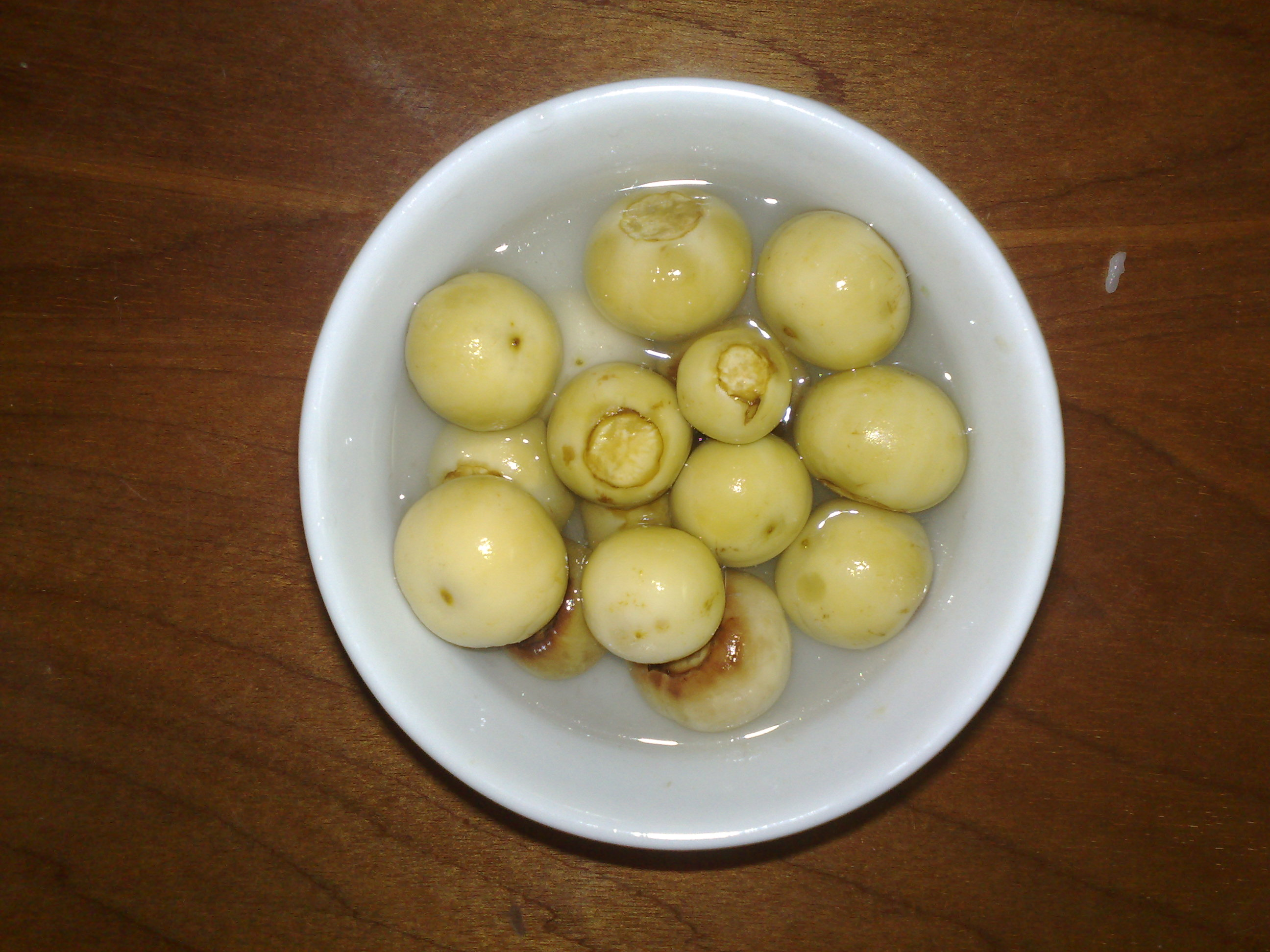 Salted Thai eggplant